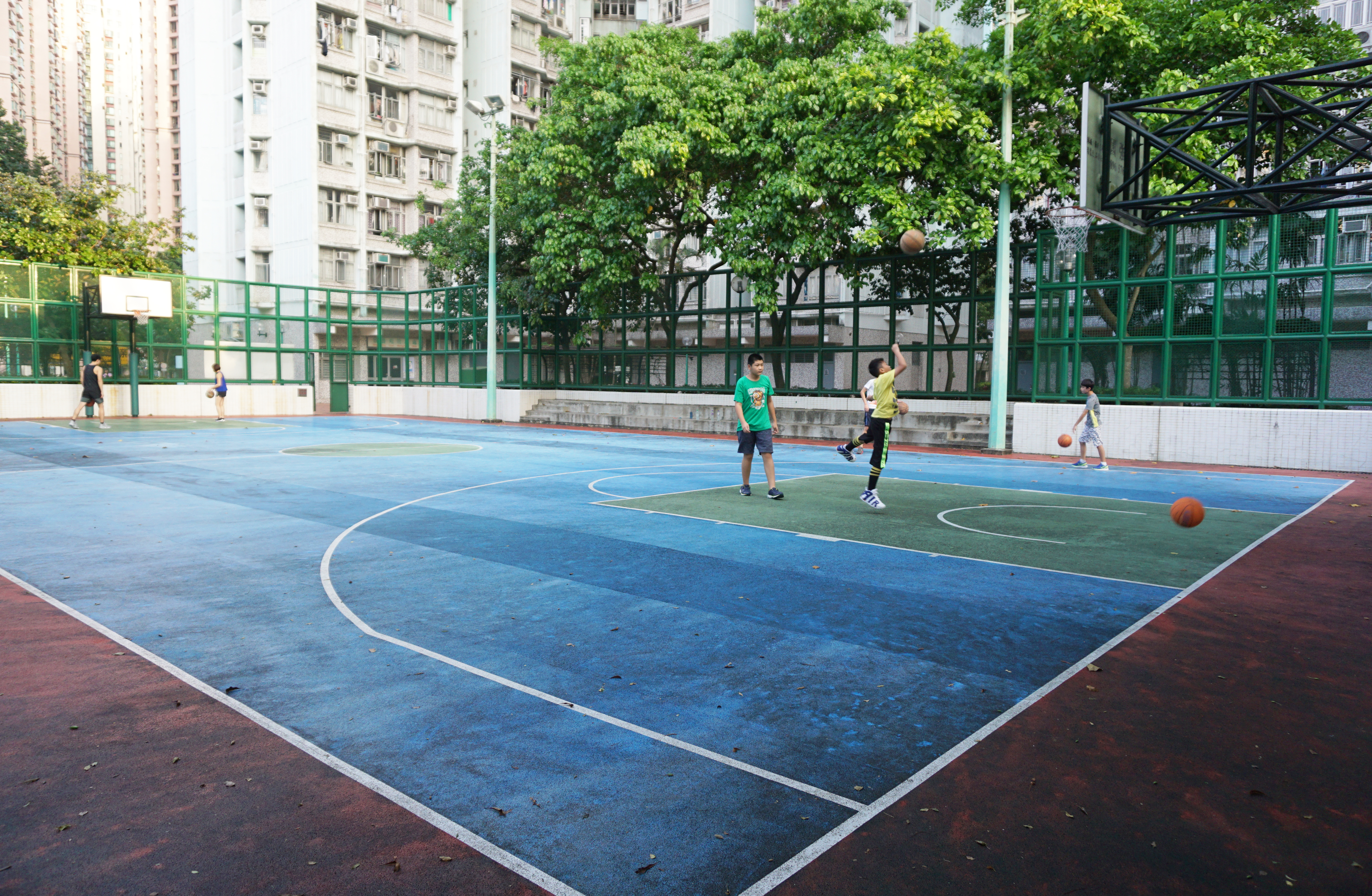 King Shing Court in Fanling, Hong Kong.